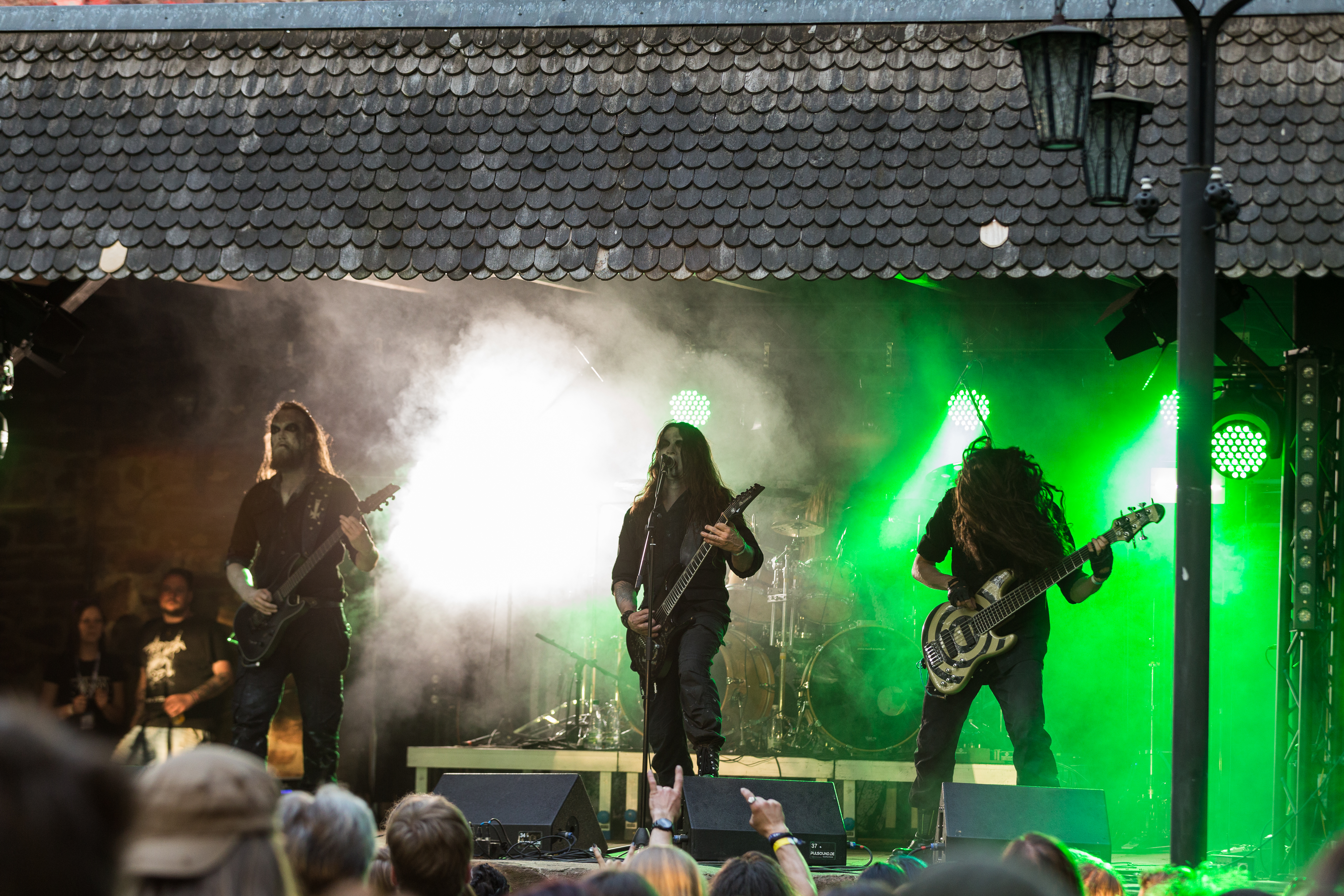 The Polish death metal band Hate at the Dark Troll Open Air 2017 in Bornstedt/Germany.